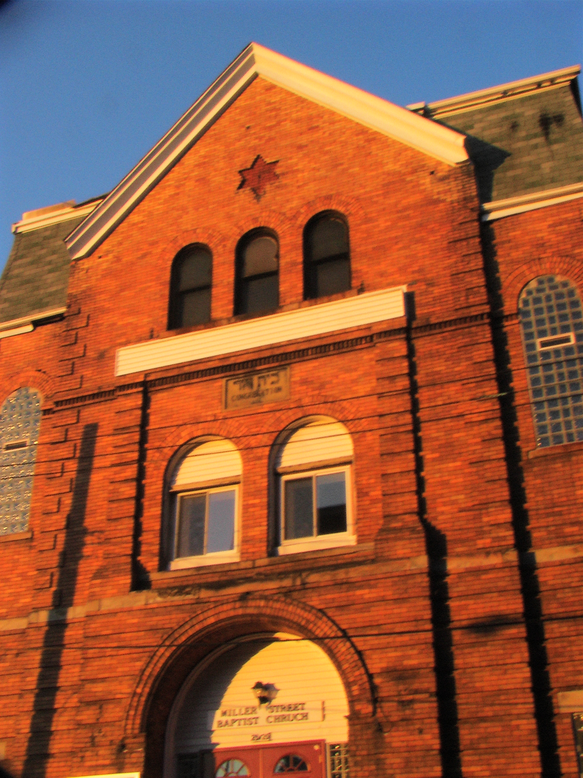 HeyYallYo Old building and former synagogue in Pittsburgh. This file is utterly free to all throughout the universe forever. YO. Uploader gave it this caption: 25 Miller Street. Not Kanascis Israel originally. 72 Miller street still exists in 2007.